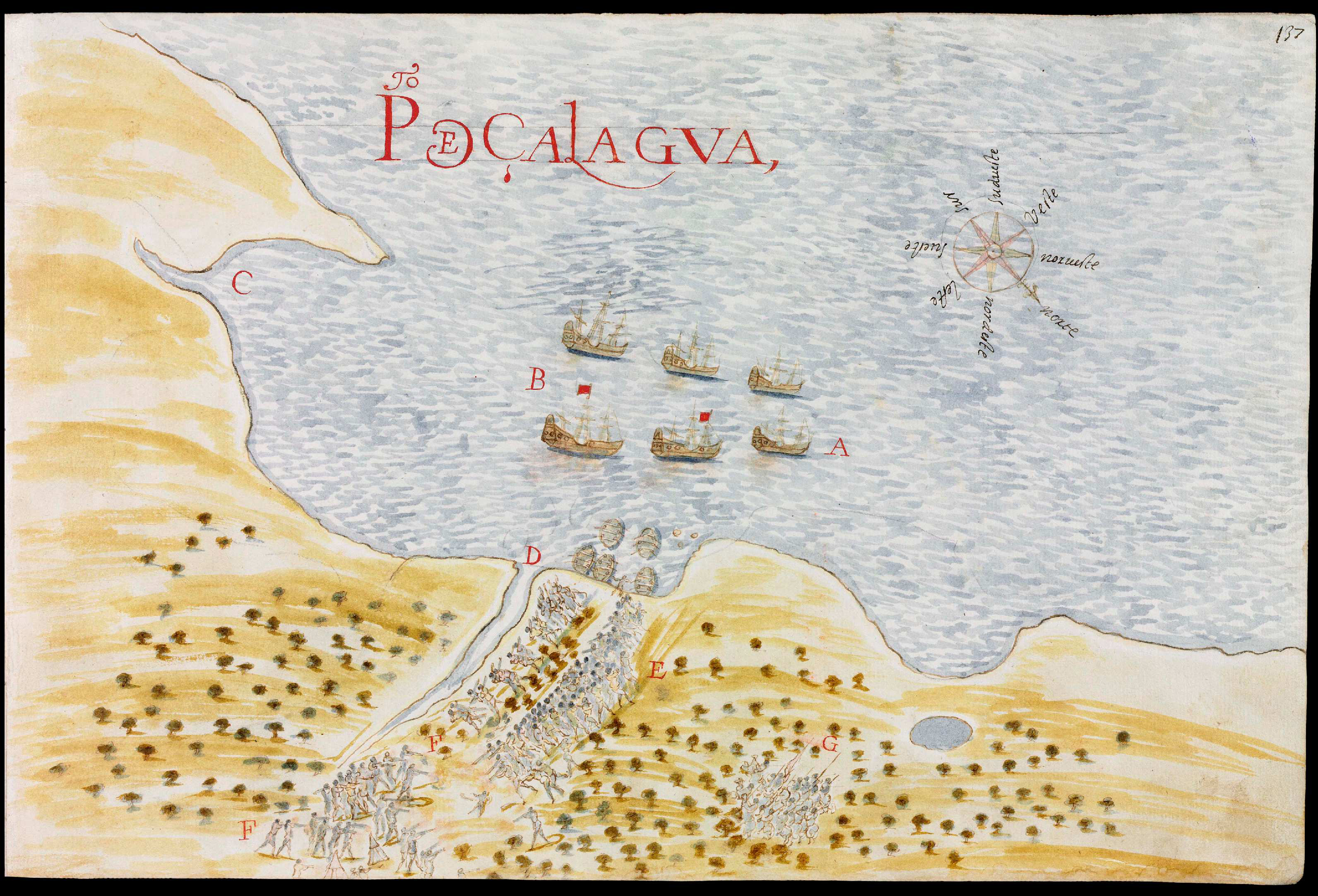 Spanish troops commanded by Sebastián Vizcaíno repel a landing by the corsairs of Joris van Spilbergen in Salagua (nowadays México). Page 137 of the Descripciones geográphicas e hydrográphicas de muchas tierras y mares del Norte y Sur en las Indias, en especial del descubrimiento del Reino de la California (Geographic and hydrographic descriptions of many northern and southern lands and seas in the Indies, specifically the discovery of the kingdom of California), written by captain Nicolás de Cardona after his expedition of 1614.